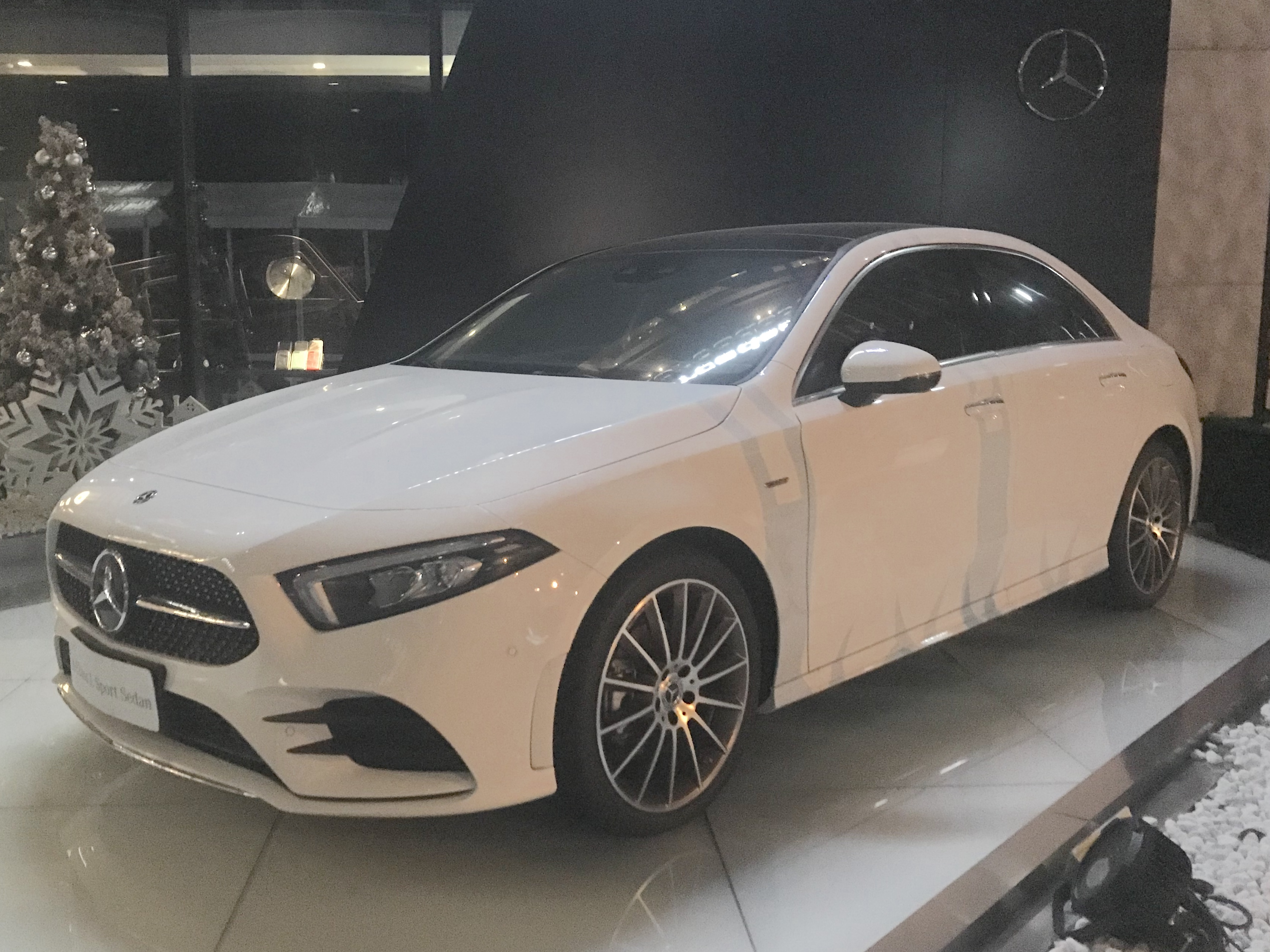 Mercedes-Benz A-class fourth generation sedan (v177)